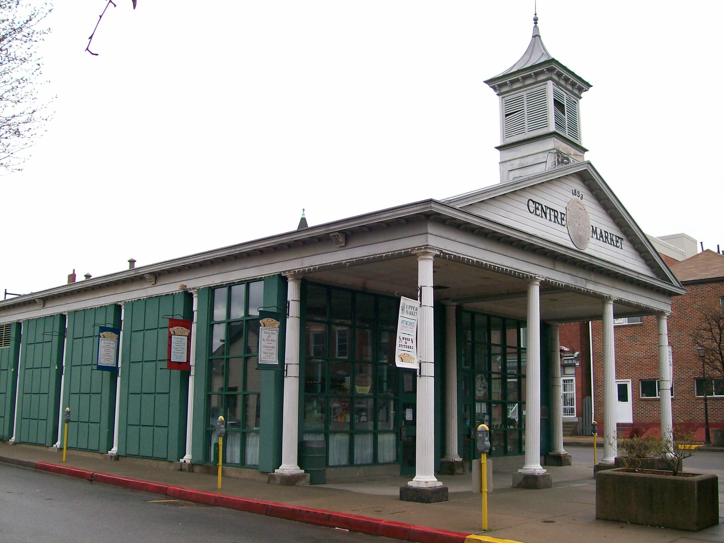 Center Market in Wheeling, West Virginia taken from the southern facade of the building between Center Market building and the Center Fish Market building. Taken April 2, 2010.